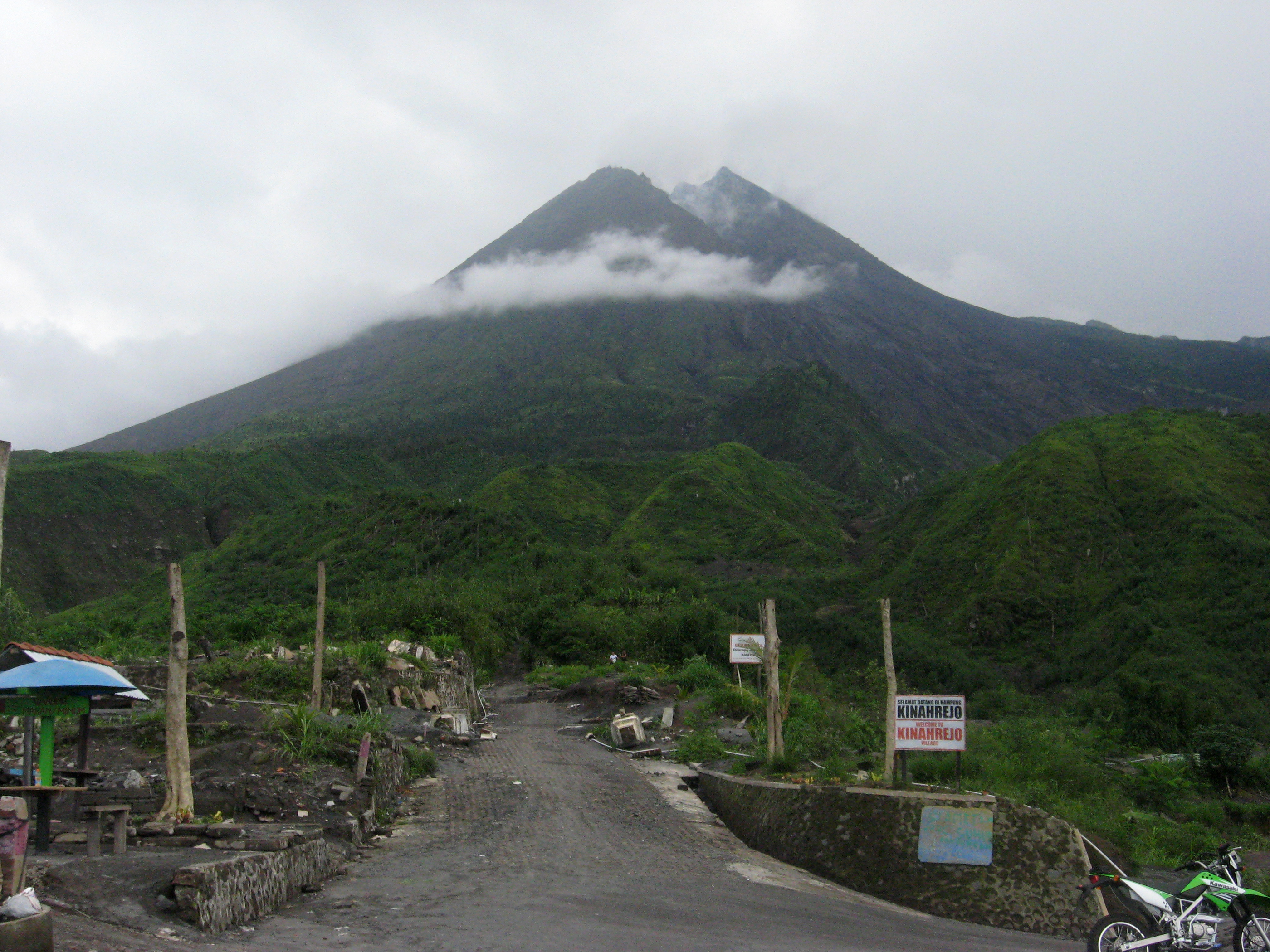 The summit of Mount Merapi, from Kinarejo village, Sleman, in 2011.